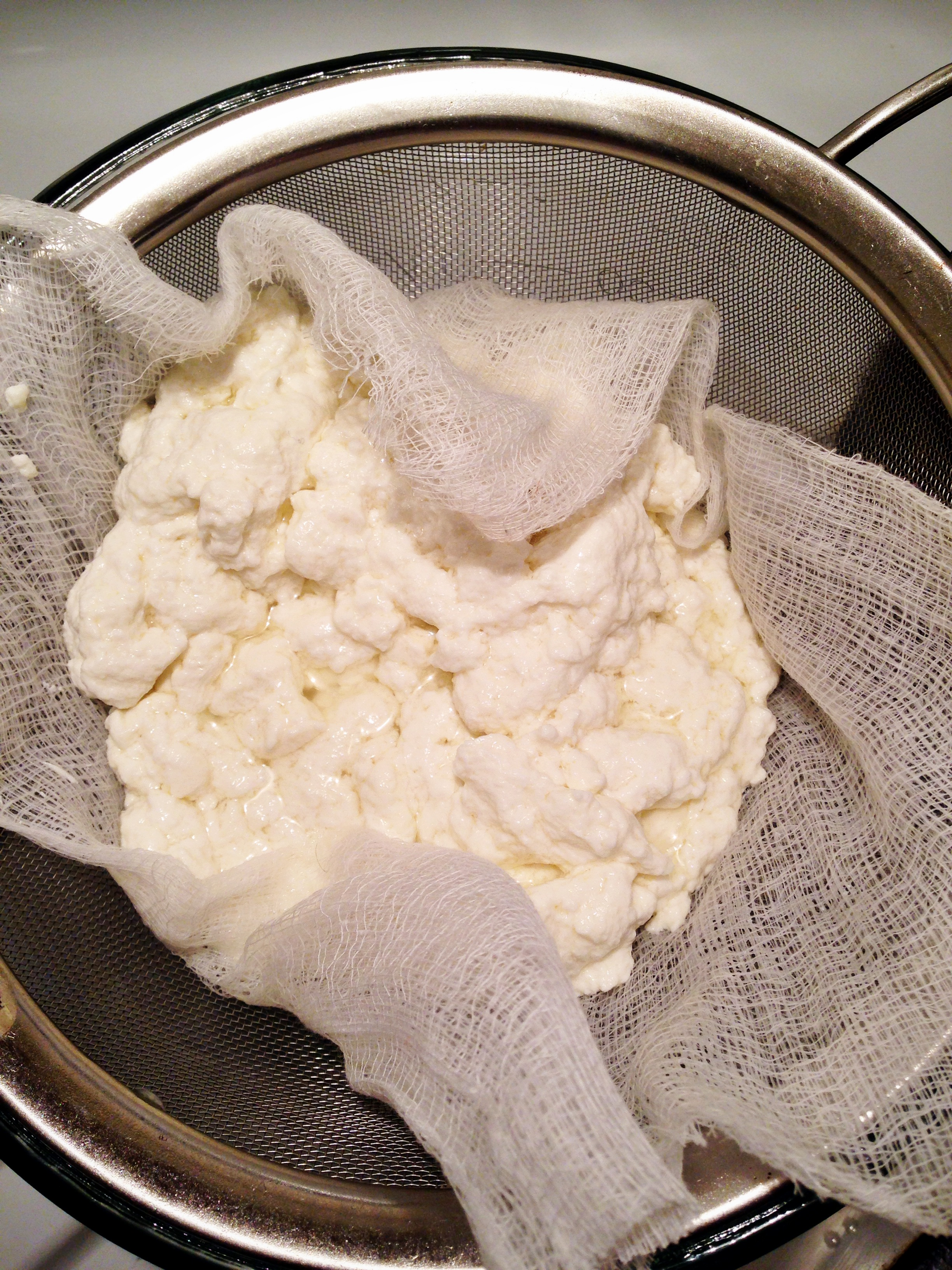 Making chese curds from homogenized milk